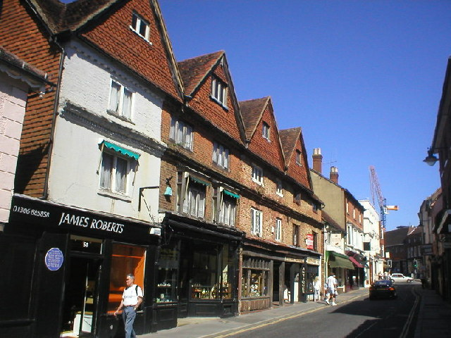 Antique shops in West Street, Dorking.